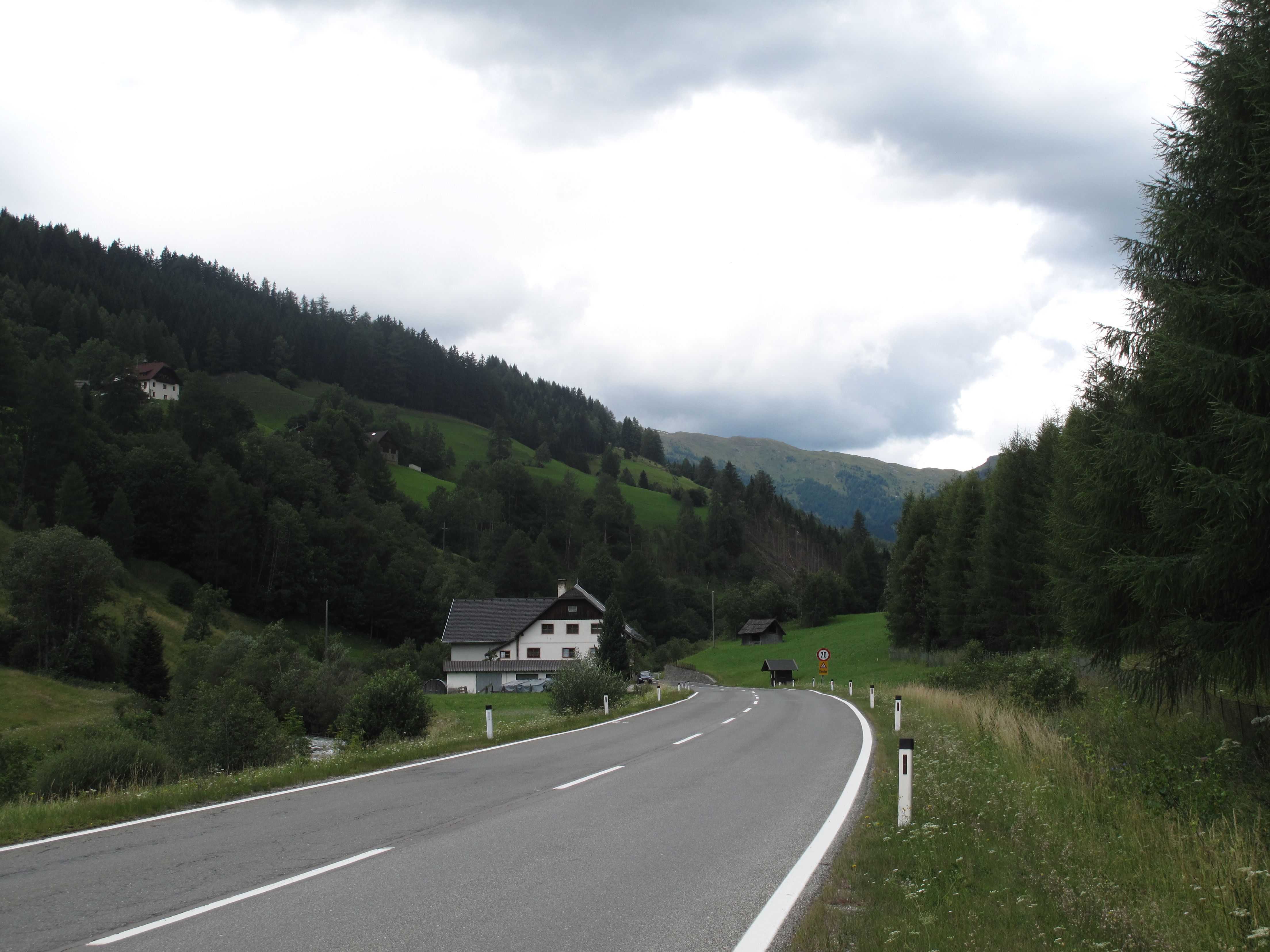 between Brugg amd Kremsbrücke, road panorama